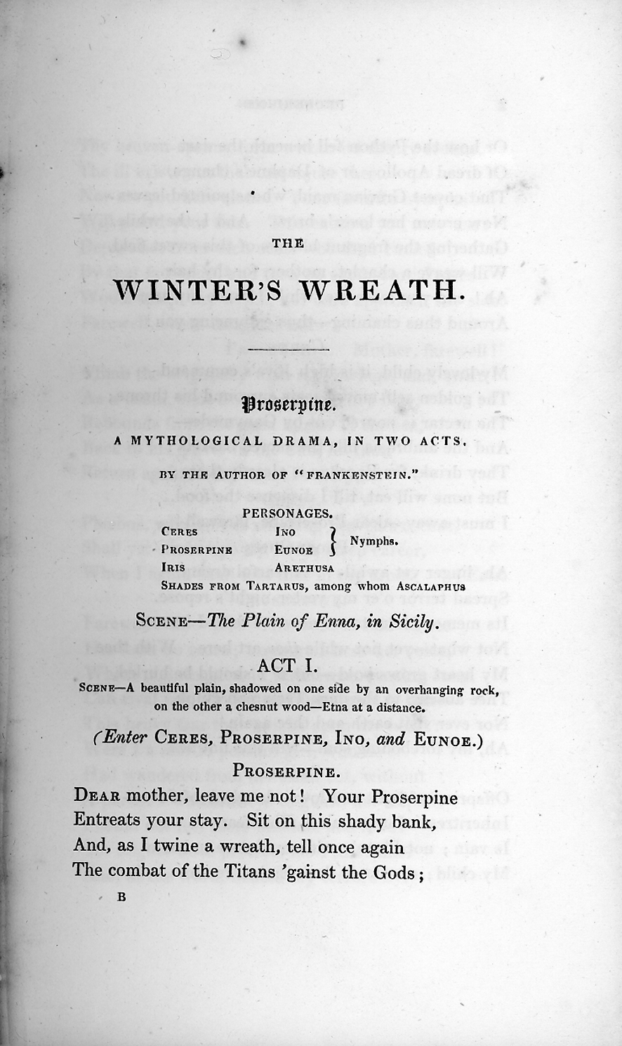 The play Proserpine by Mary Shelley, as it appeared in the Winter's Wreath for 1832.